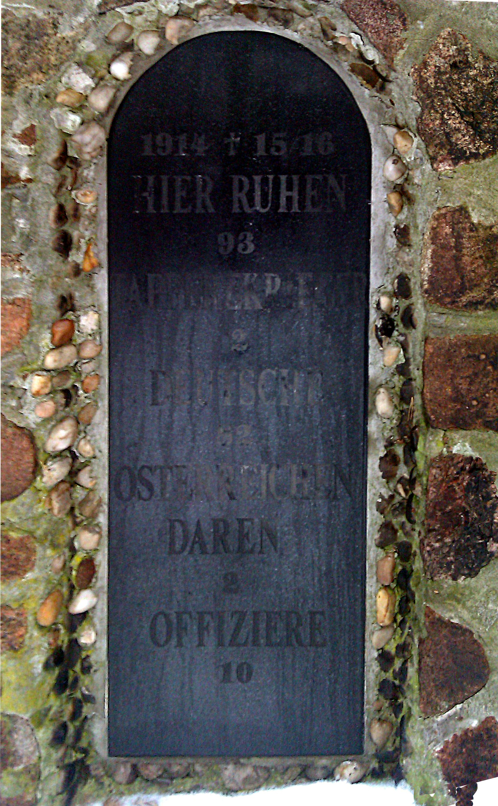 War cementery in Łazy, Poland - obelisk, information tablet